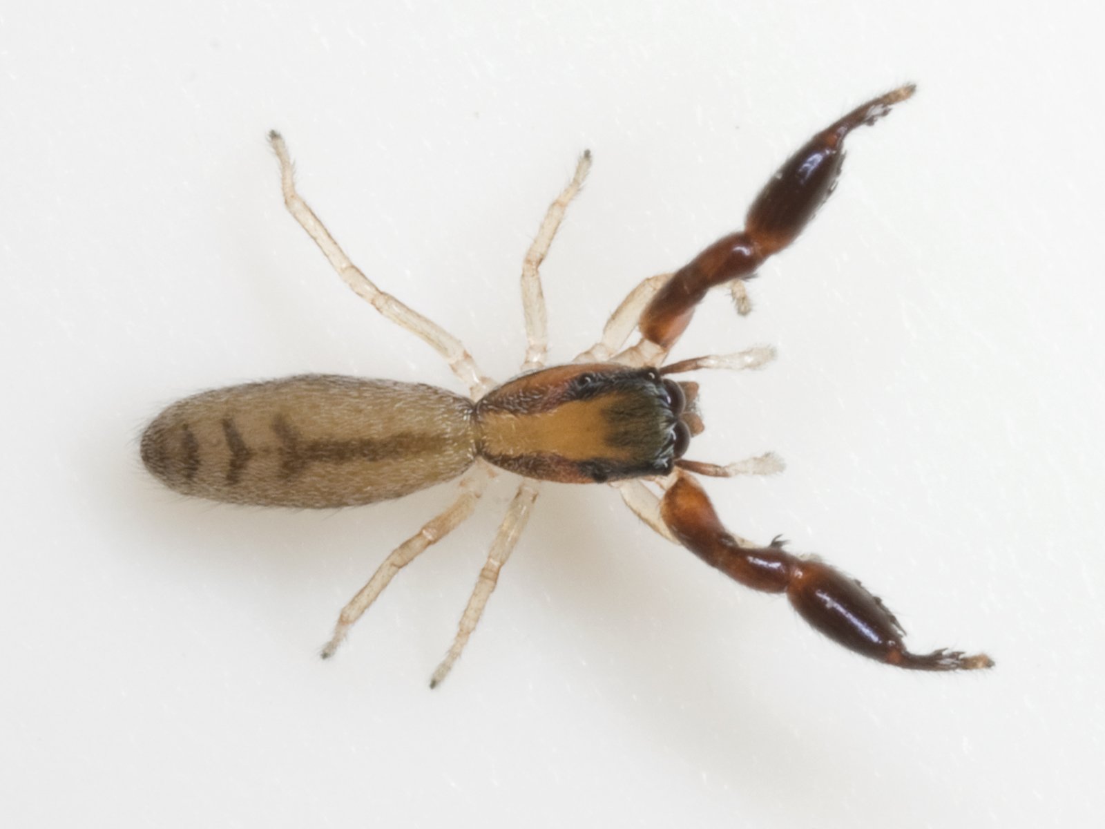 Cheliferoides longimanus (synonym: Bellota longimana) jumping spider collected in Cameron County, Texas. Species determined by Wayne Maddison.